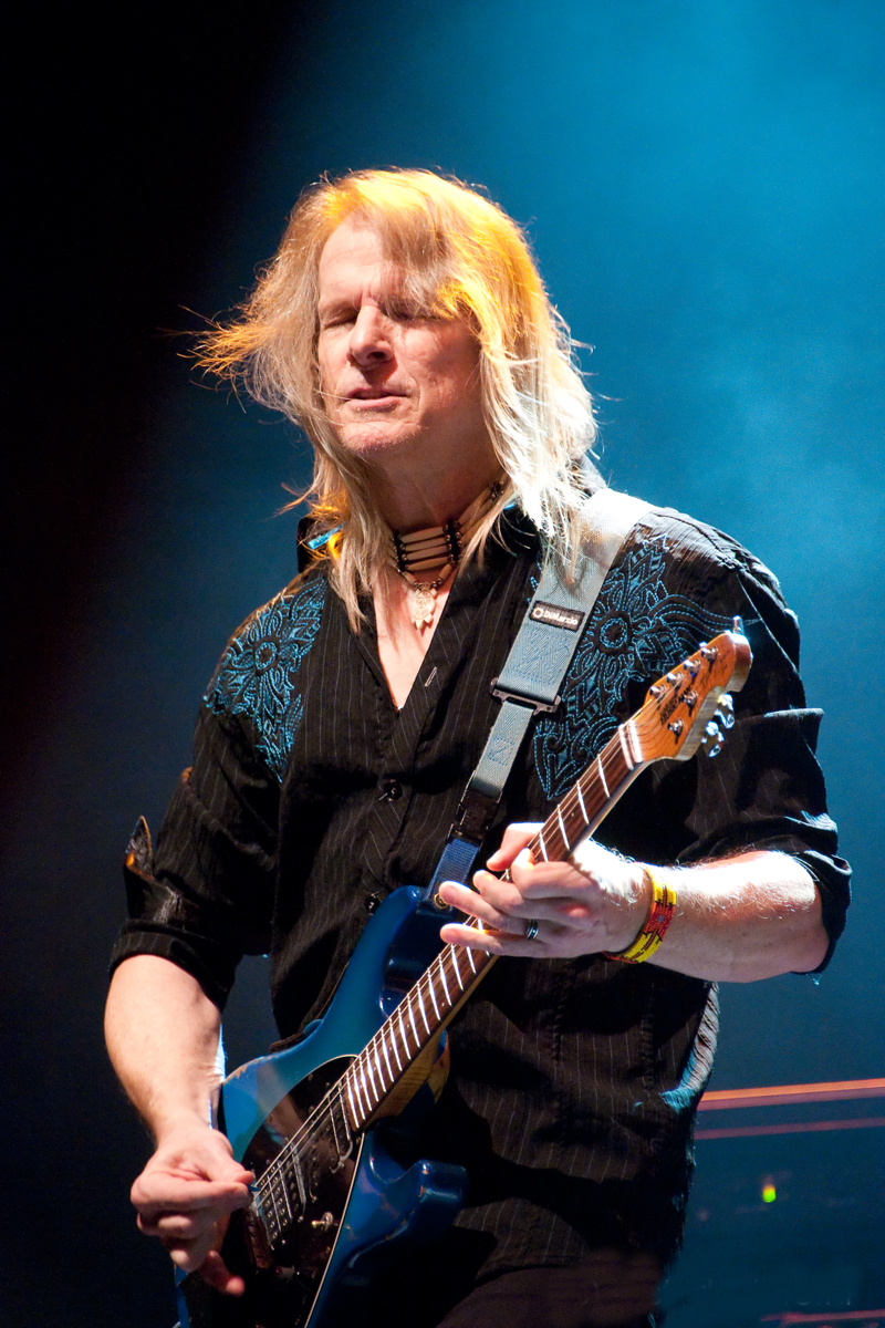 Steve Morse playing with Flying Colors, 013, Tilburg, The Netherlands (sep. 20., 2012).